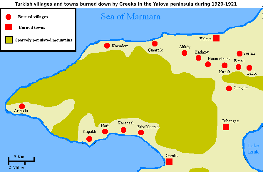 This is a map of Turkish villages and towns burned down by the Greek army and Greek/Armenian local gangs in the Yalova peninsula during the Greco-Turkish War (1920-1921). The names of the towns and villages is based on the Inter-Allied commission who investigated the atrocities. Detailed information can be found here